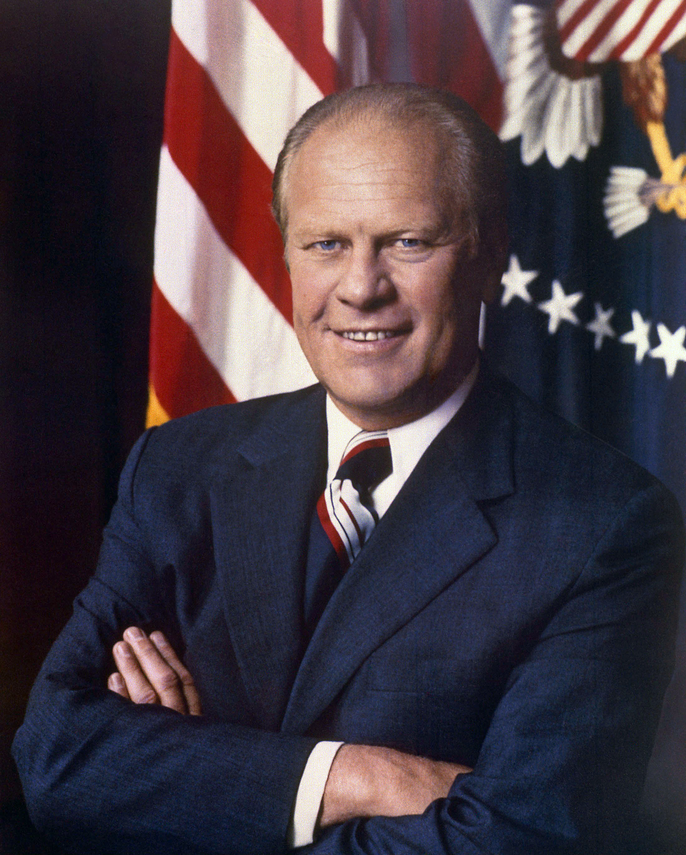 Gerald Ford's presidential portrait